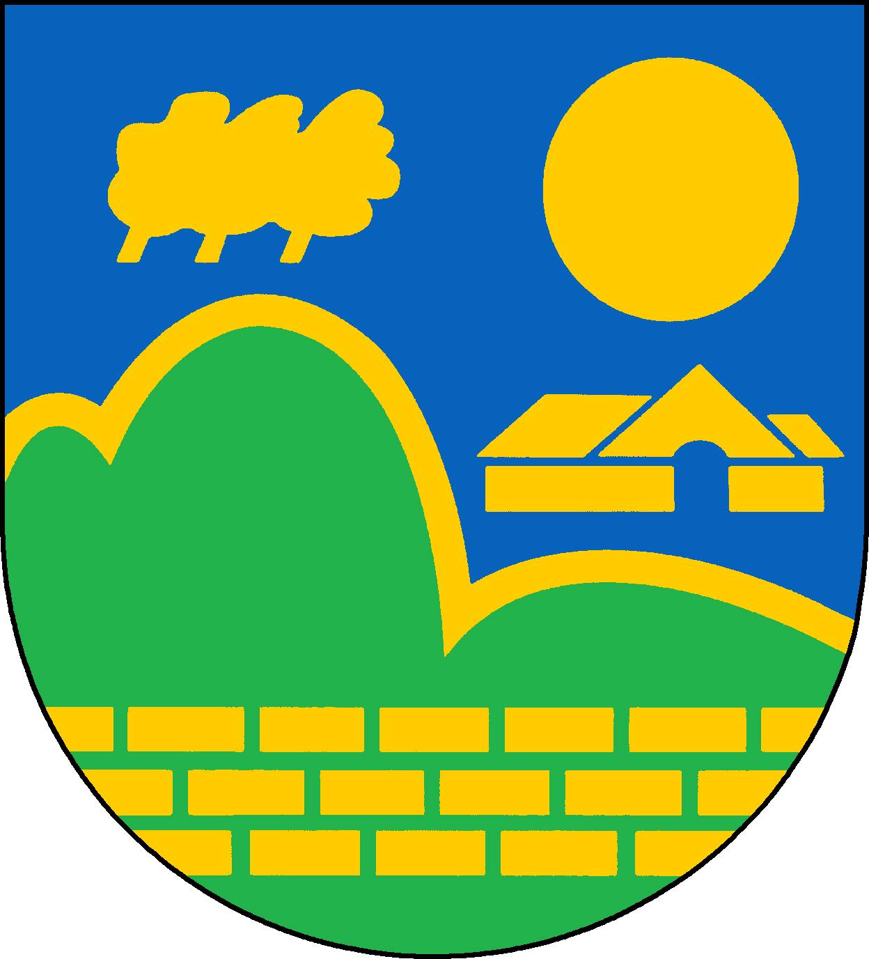 Coat of arms of the municipality Sönnebüll in Schleswig-Holstein, Germany.